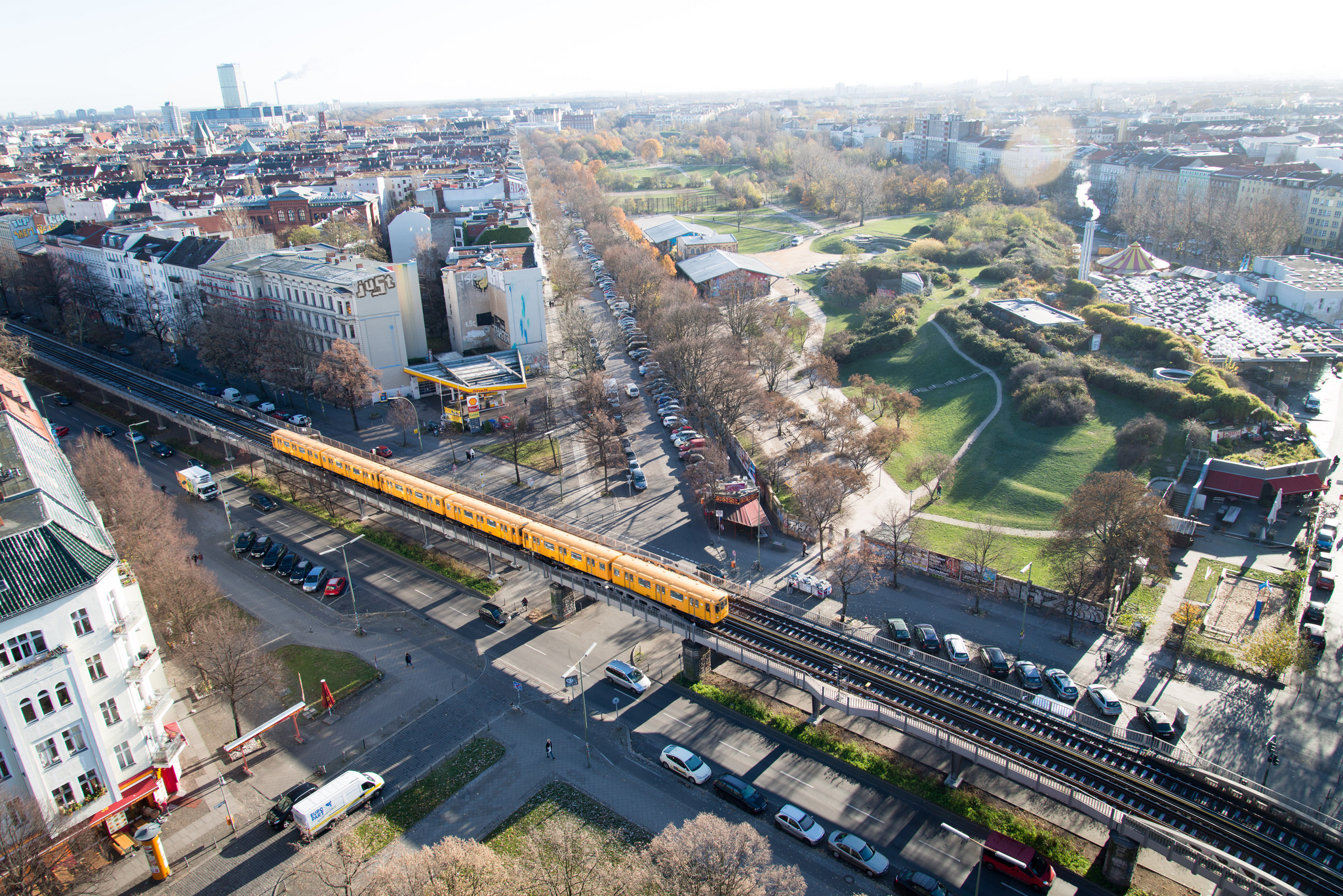 Bird's eye view of Görlitzer Park in Berlin-Kreuzberg. Presumably taken from the spire of the Emmauskirche (Berlin)